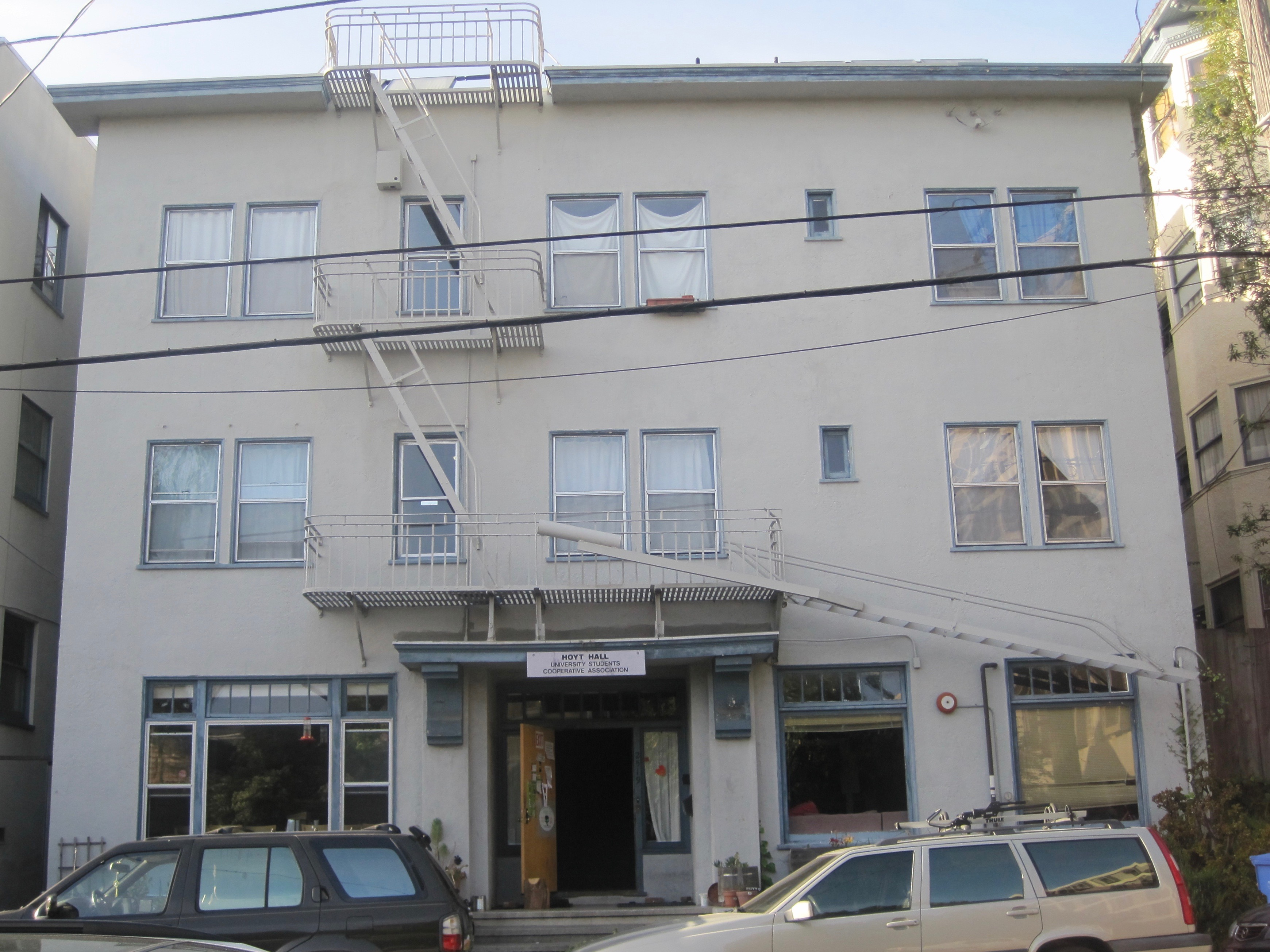 Hoyt Hall, one the two all-female houses in the Berkeley Student Cooperative, in Berkeley, California.